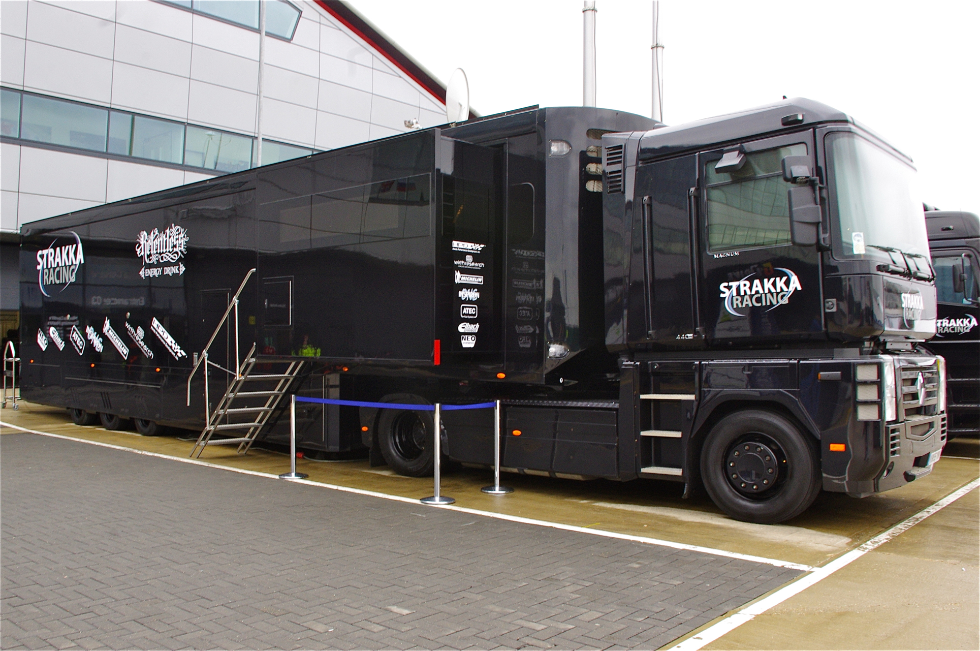 Silverstone 6 Hours 2013 FIA World Endurance Championship (WEC)